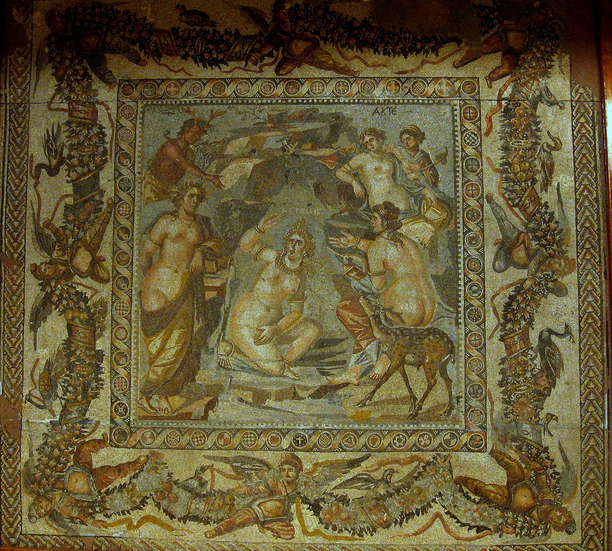 Diana discovered at bath by Actaeon; Roman mosaic in As-Suwayda, Syria